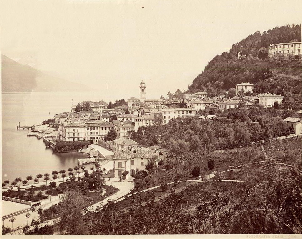 Antonio Nessi (1834-1907) - "View of Bellagio - Lake Como".